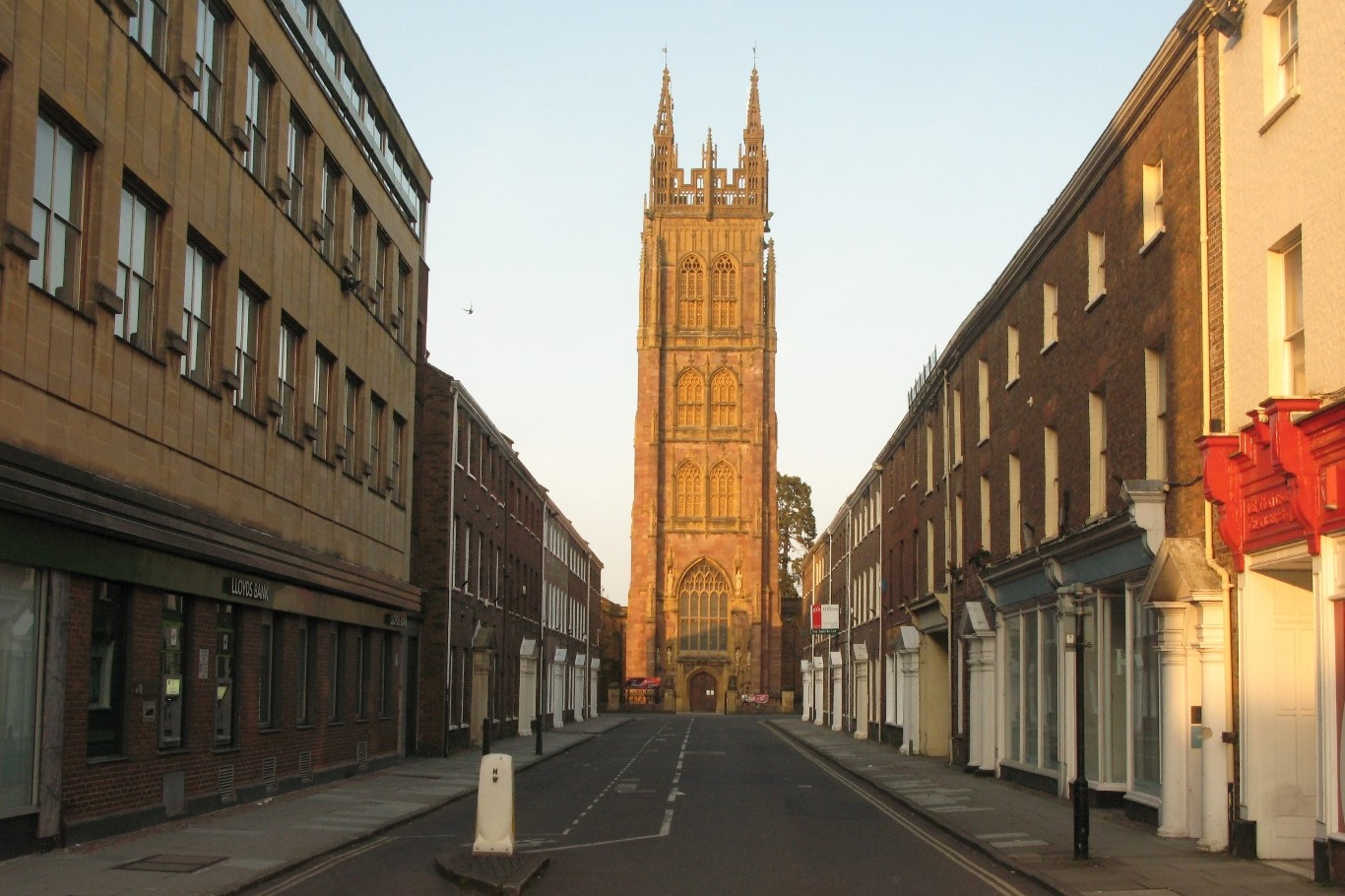 Looking east along Hammet Street towards St Mary Magdelene in Taunton.